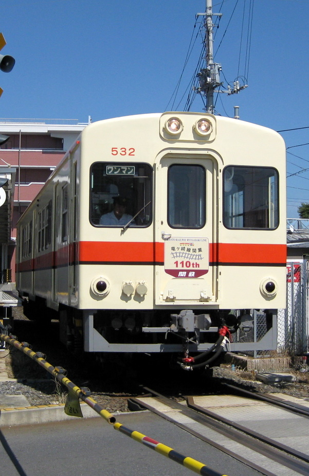 Kanto Railway Type Kiha532.(Japan).